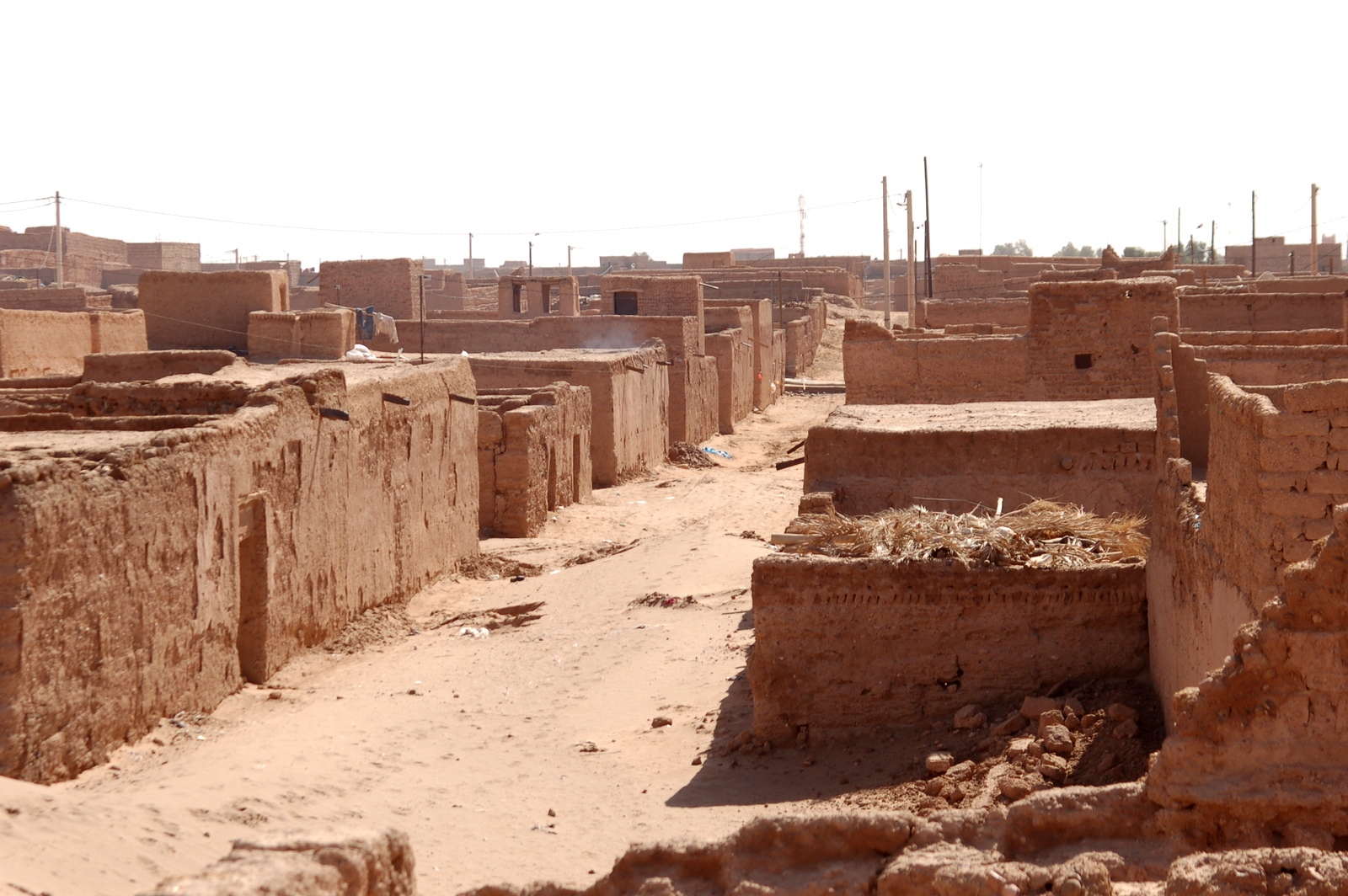 One of side streets in Mhamid, Morocco.